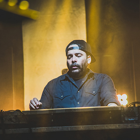 June 10th, 2017 - Deftones performs live at Michigan Lottery Amphitheatre at Freedom Hill in Sterling Heights, MI. Photo Credit: Chris Schwegler.